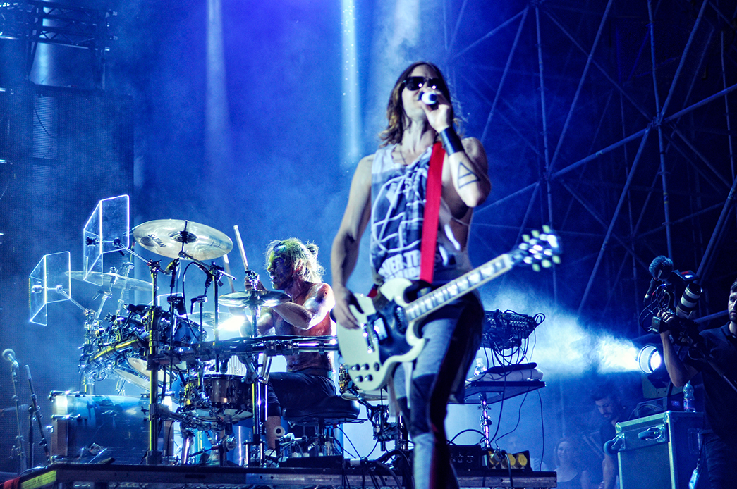 Thirty Seconds to Mars performing in Padova, Italy on July 14, 2013